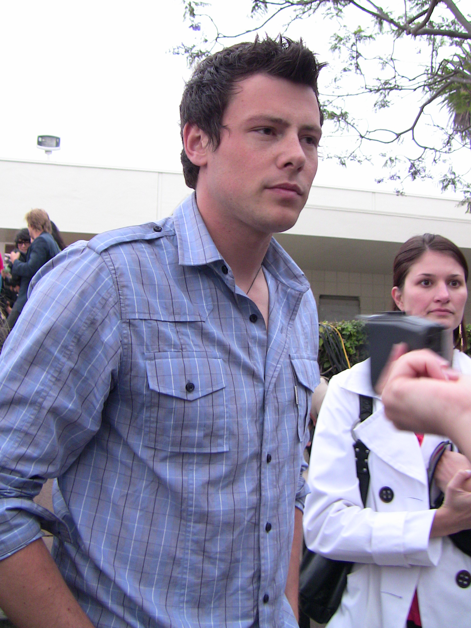 Actor Cory Monteith at premiere party of TV series Glee, Santa Monica, California.